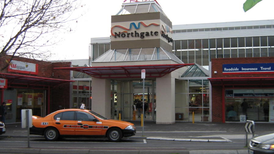 Northgate Shopping Centre, Taken by myself on 21-06-2006